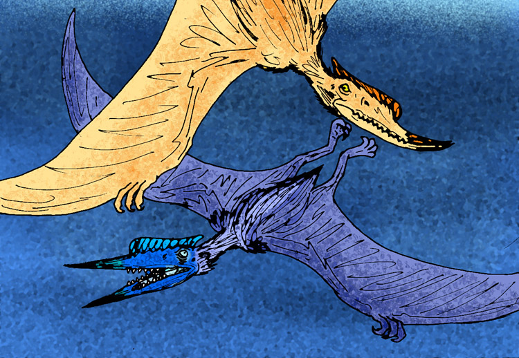 The pterodactyl pterosaur Phobetor parvis